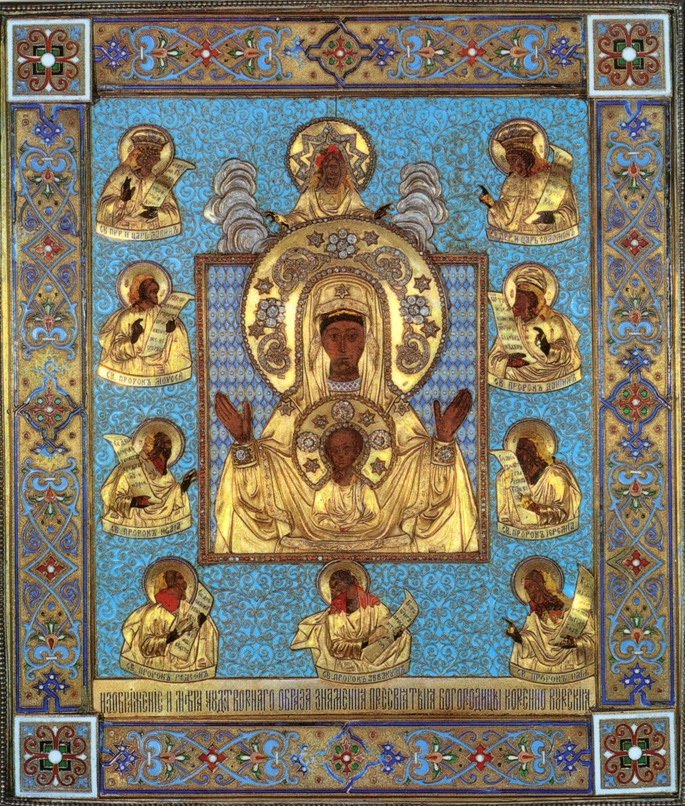 Kursk Root Icon of the Sign, also known as Theotokos of Kursk and Our Lady of Kursk.